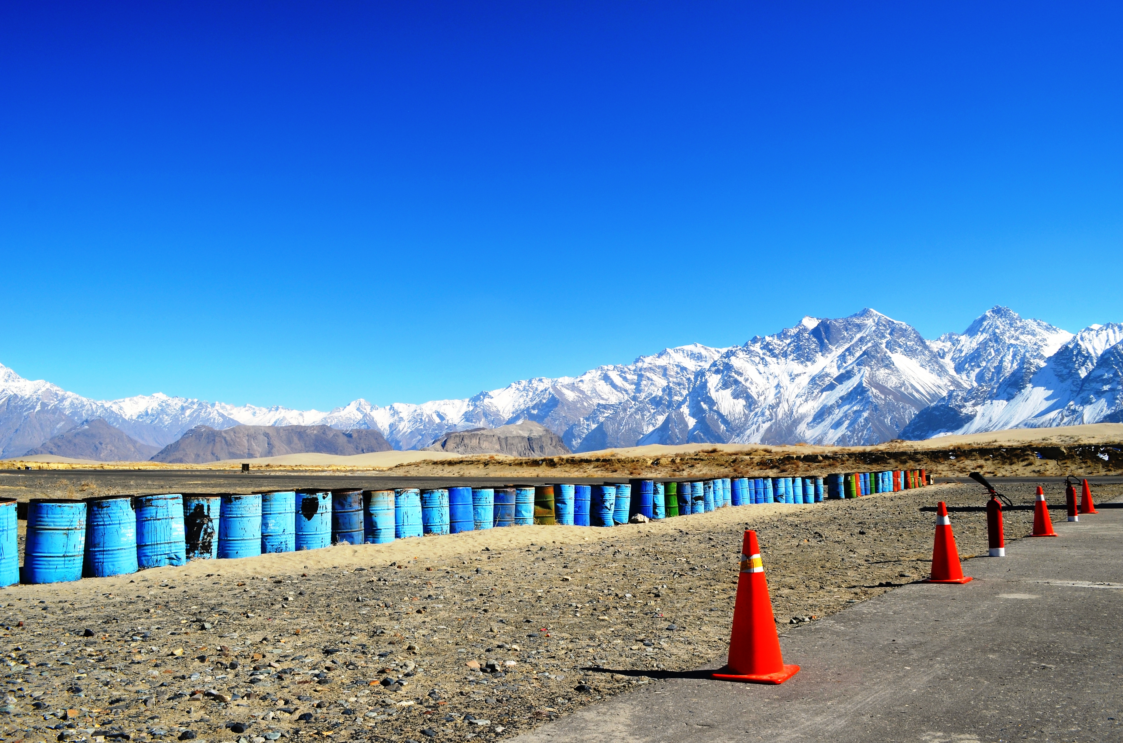 Skardu, along with Gilgit, are the major tourism, trekking and expedition hubs in Gilgit-Baltistan, Pakistan. It therefore attracts tourists from around the world.